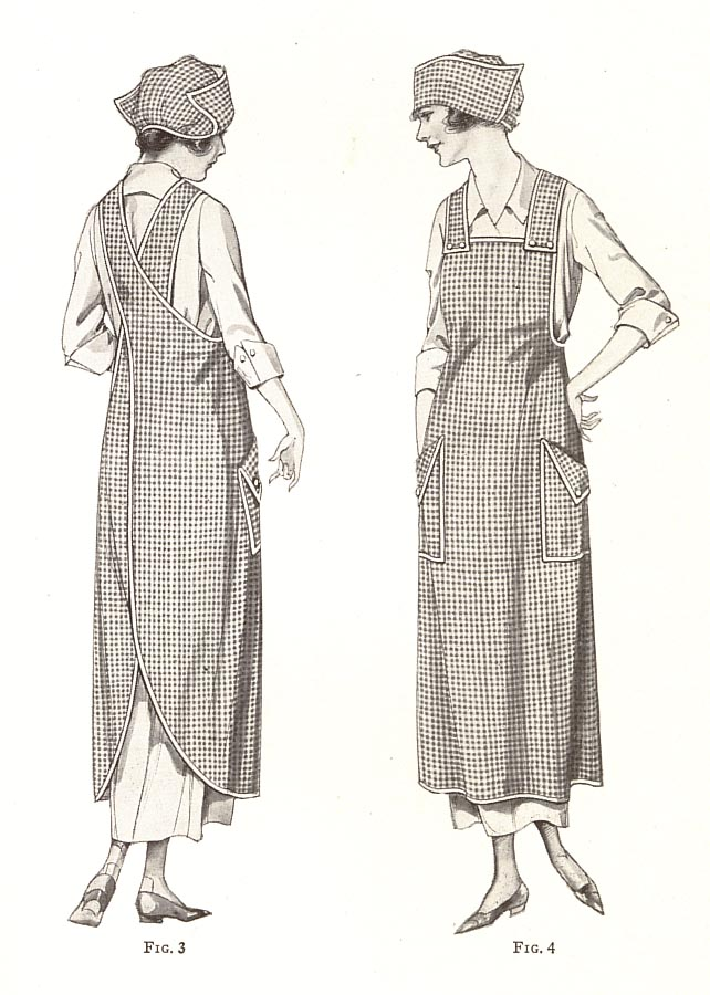 Back and front view of a woman wearing an apron intended for cooking and a house cap of the "Dutch bonnet" style. Figure 3 and 4 from "House Aprons and Caps" by Mary Brooks Picken, published by the Women's Institute of Domestic Arts & Sciences of Scranton, Pennsylvania, 1922.